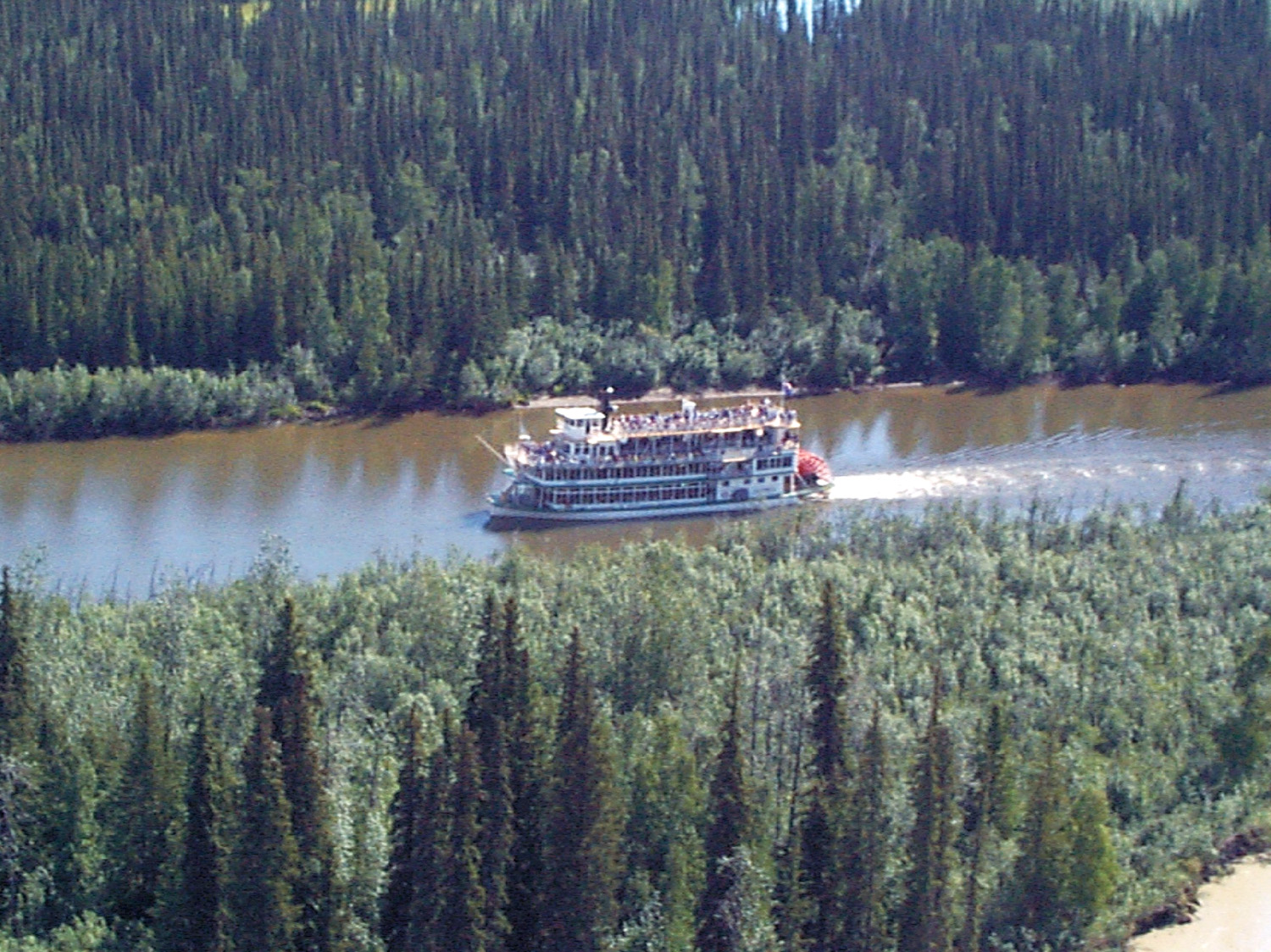 A paddle-wheel steamer on the Chena River near Fairbanks, Alaska, USA. The paddle-wheelers are a popular attraction on the Chena River during the summer tourist season.